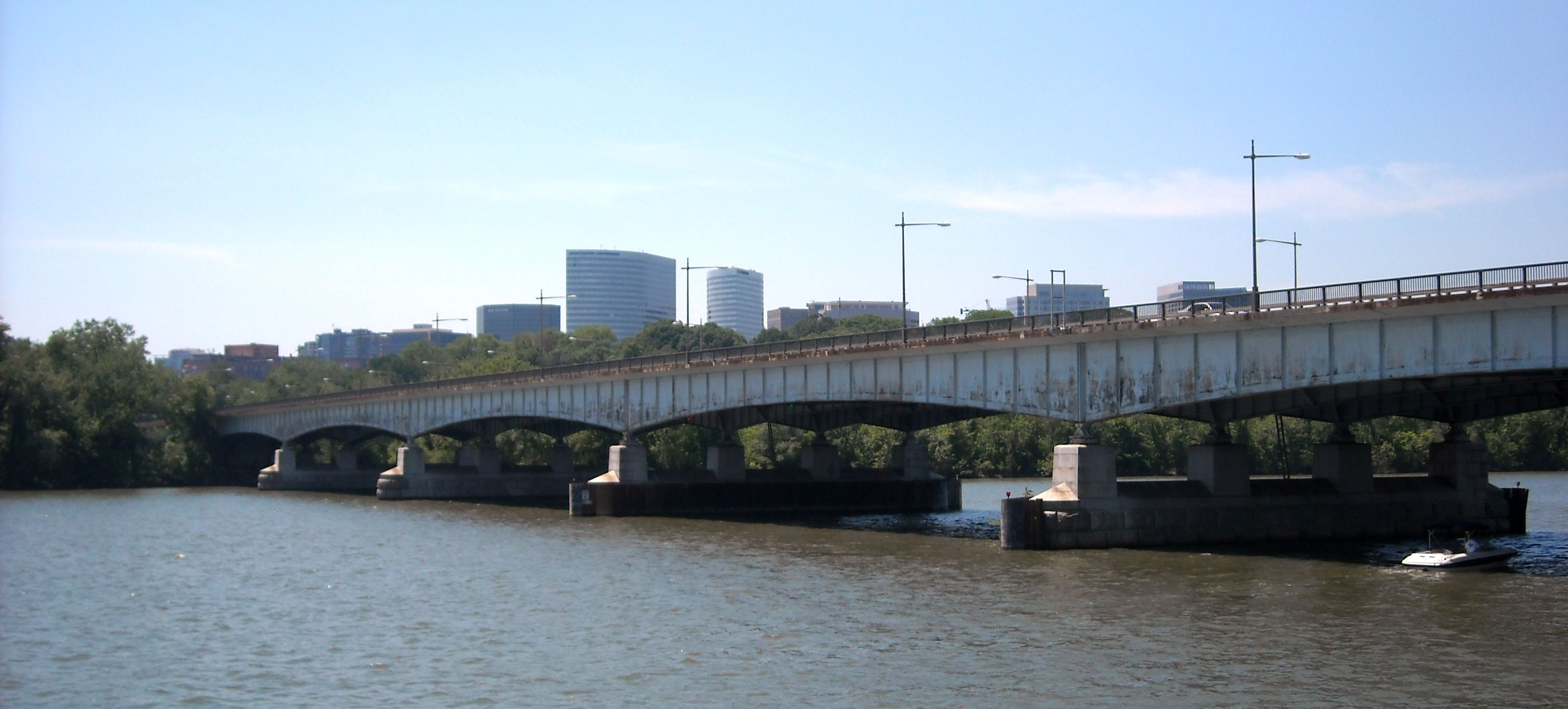 Theodore Roosevelt Bridge in Washington, D.C. The bridge crosses the Potomace River into Arlington County, Virginia. The Rosslyn, Virginia skyline is in the background.